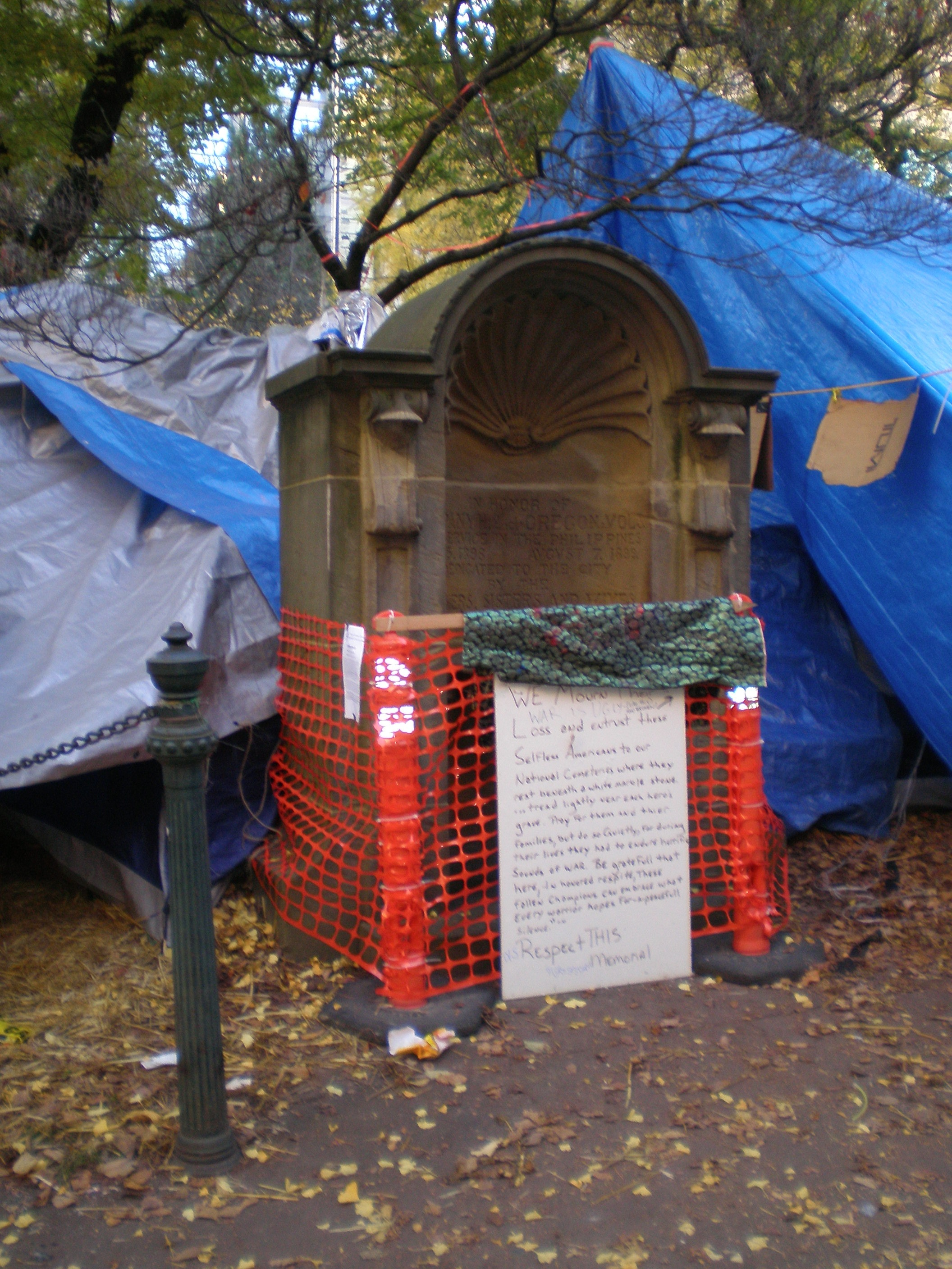 Memorial, Occupy Portland, November 9, 2011